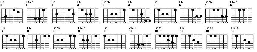 Guitar neck shapes of the power chord